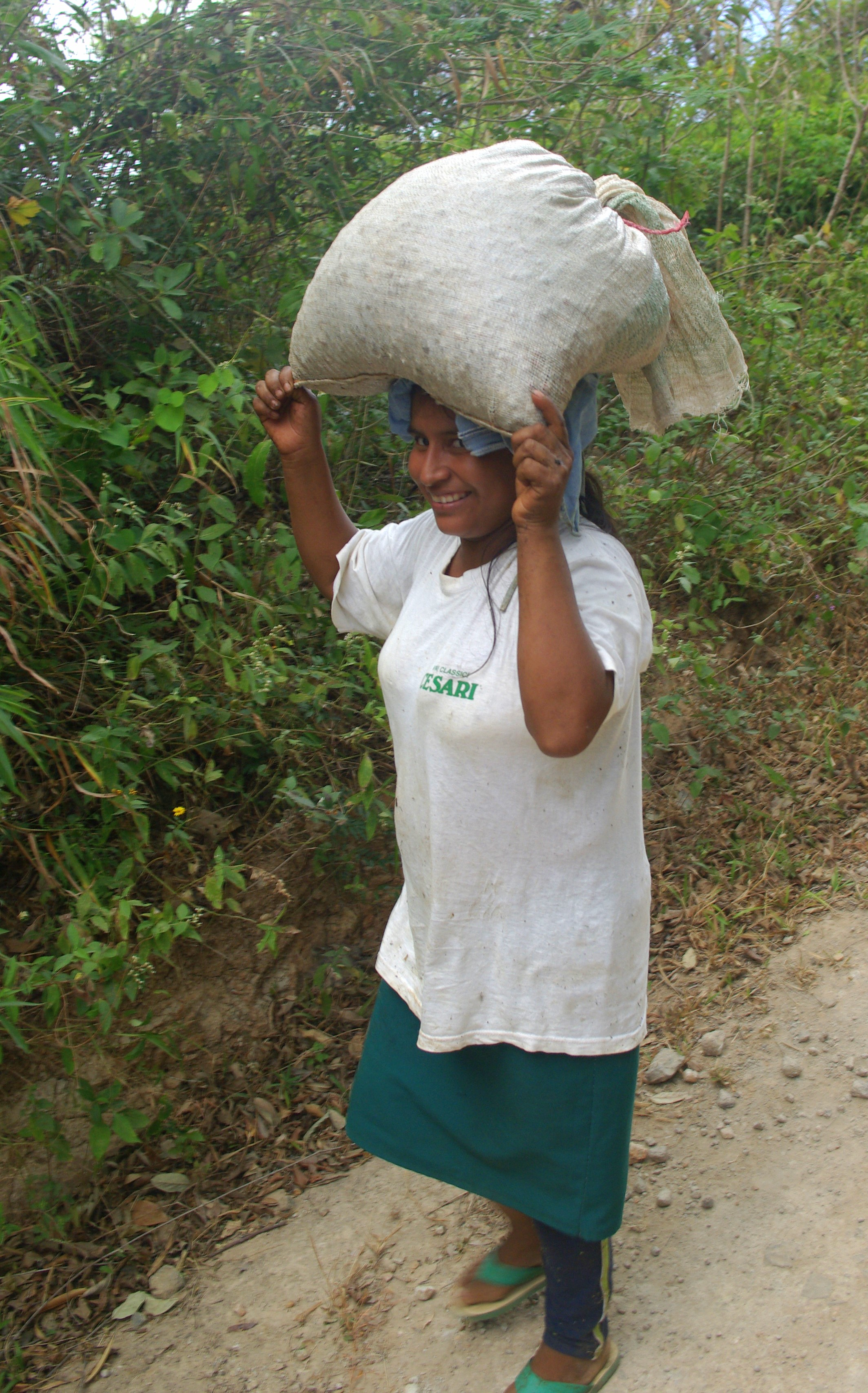 Fair trade Coffee growers in Tacuba in the Parque Nacional El Imposible, El Salvador